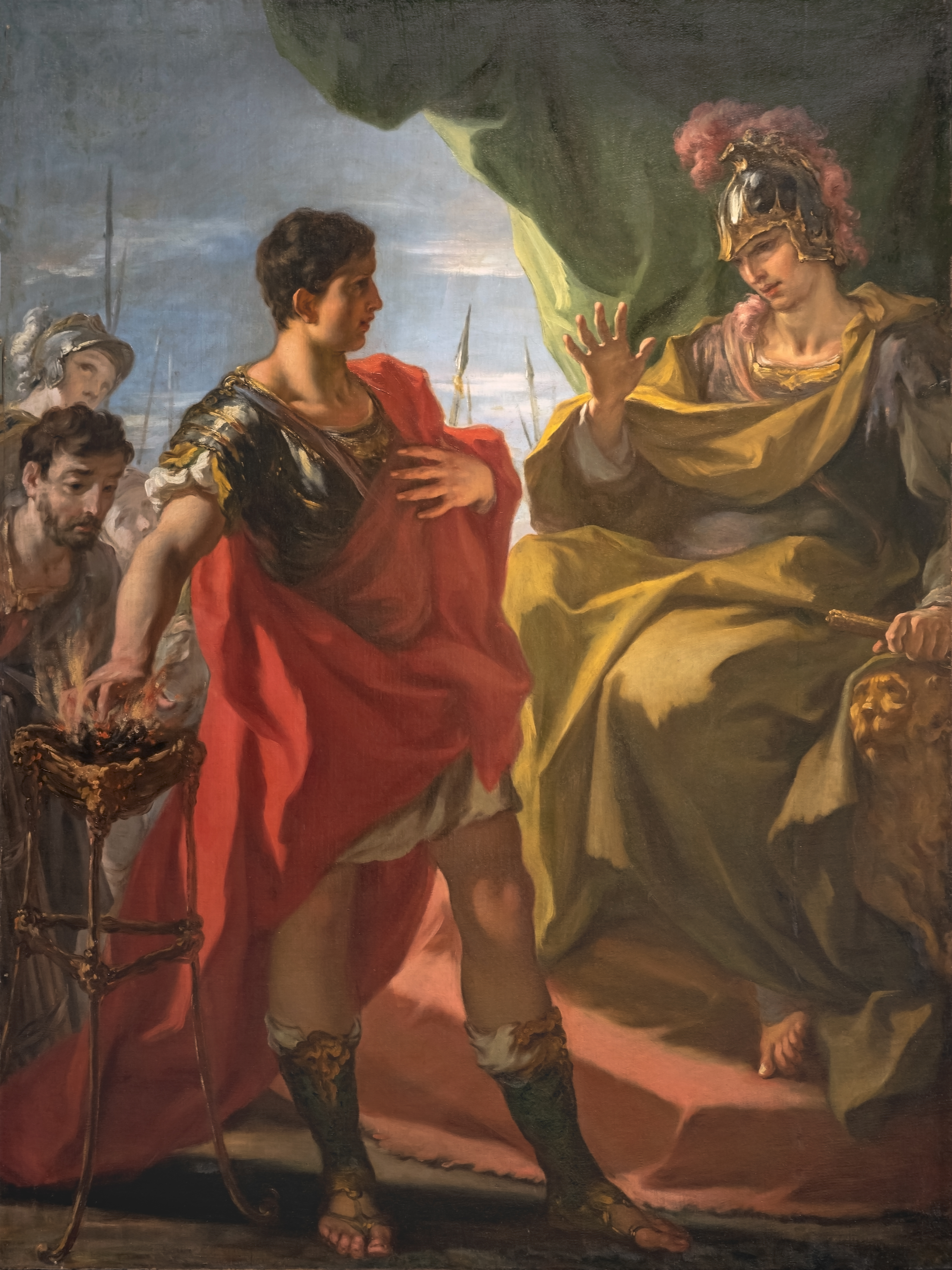 Depicted person: Lars Porsena – Late 6th century BC Etruscan king of Clusium involved in wars against the city of Rome